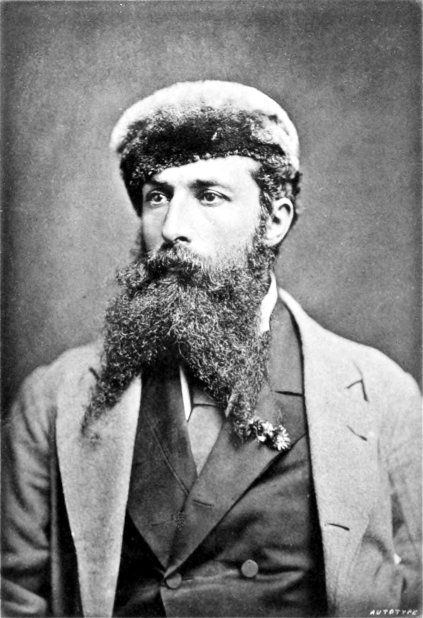 Signor Luigi Maria D'Albertis, Fly River explorer, British New Guinea.